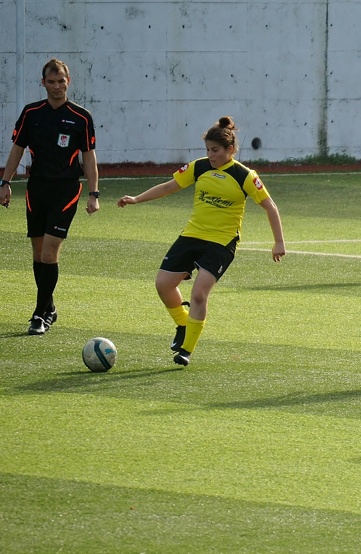 Merve Akıl playing for Gazikentspor in the 2014-15 season